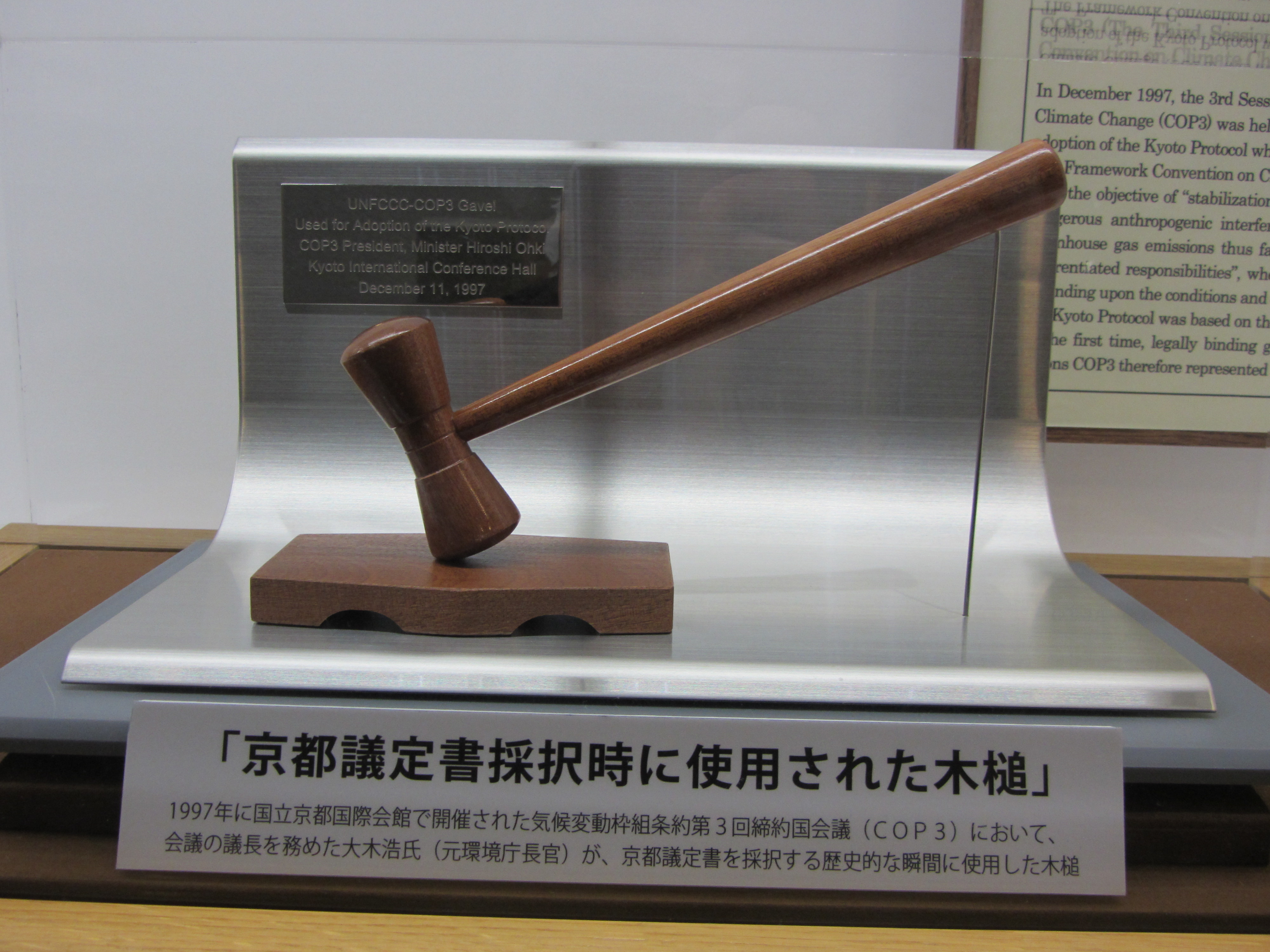 "Used for Adoption of the Kyoto Protocol COP3 President, Minister Hiroshi Ohki Kyoto International Conference Hall December 11, 1997"